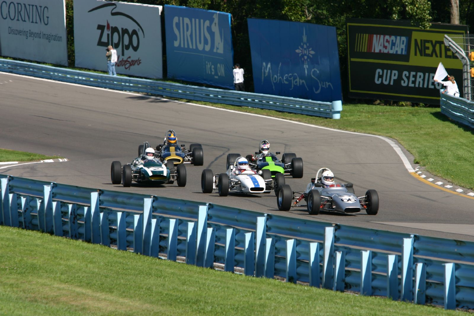 SVRA Group 2 racers in the Esses at Watkins Glen.